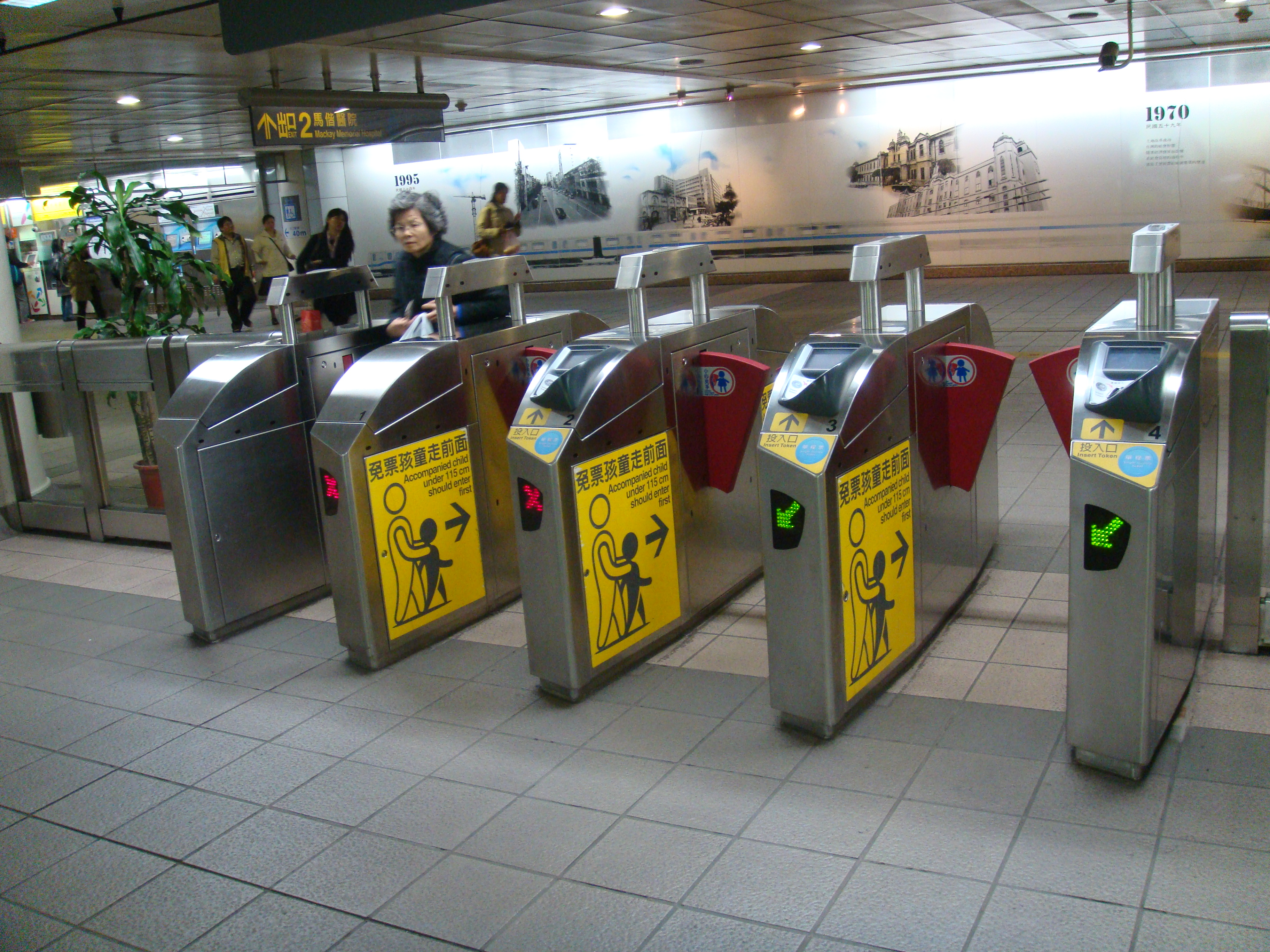 Faregates (facing the unpaid area) of Shuanglian Station, Taipei Metro, Taipei.